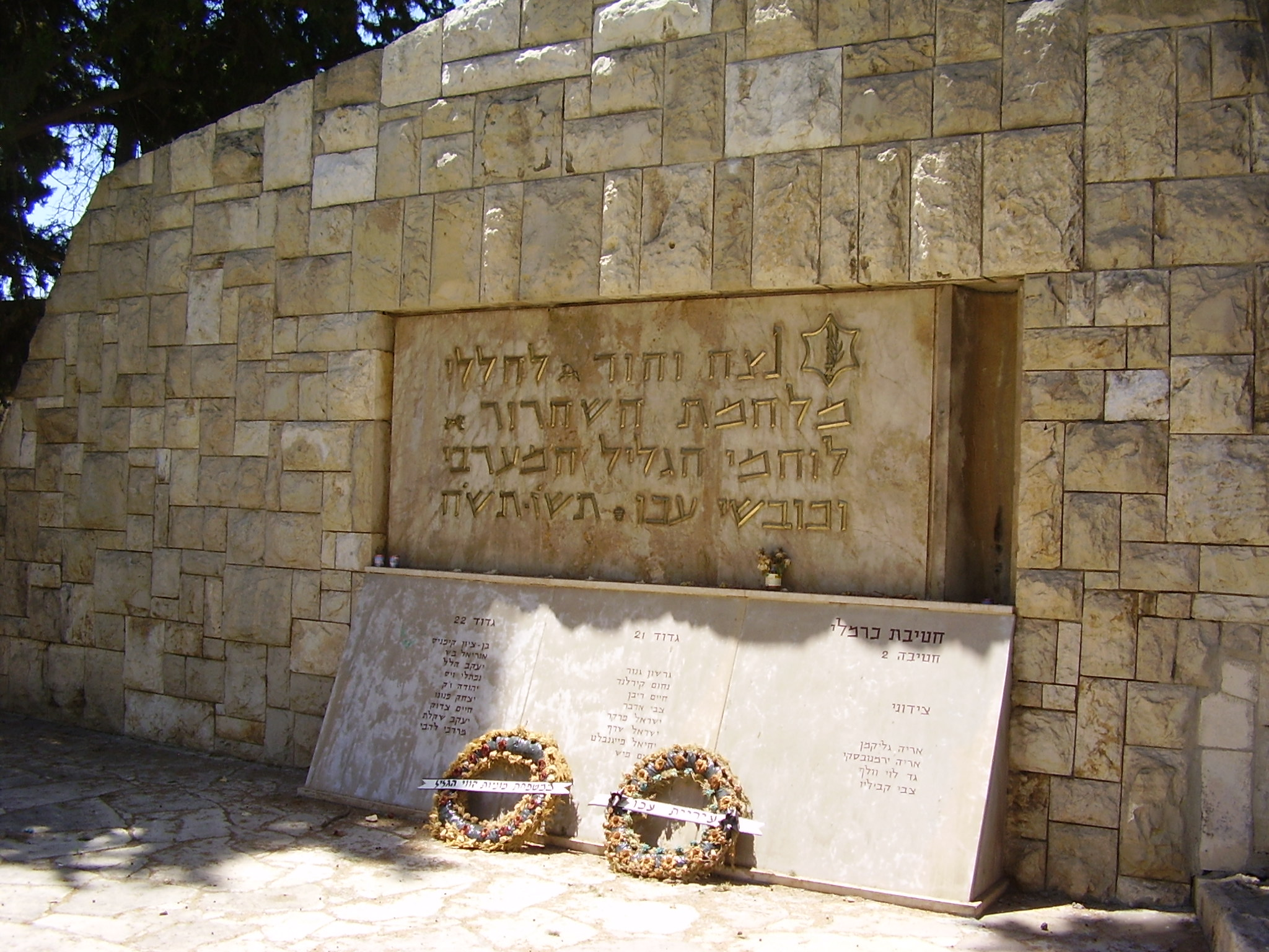 Independence War Memorial in Acre, Israel